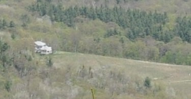 The Far Horizons estate, Dublin, New Hampshire (as seen from the slopes of Mount Monadnock).